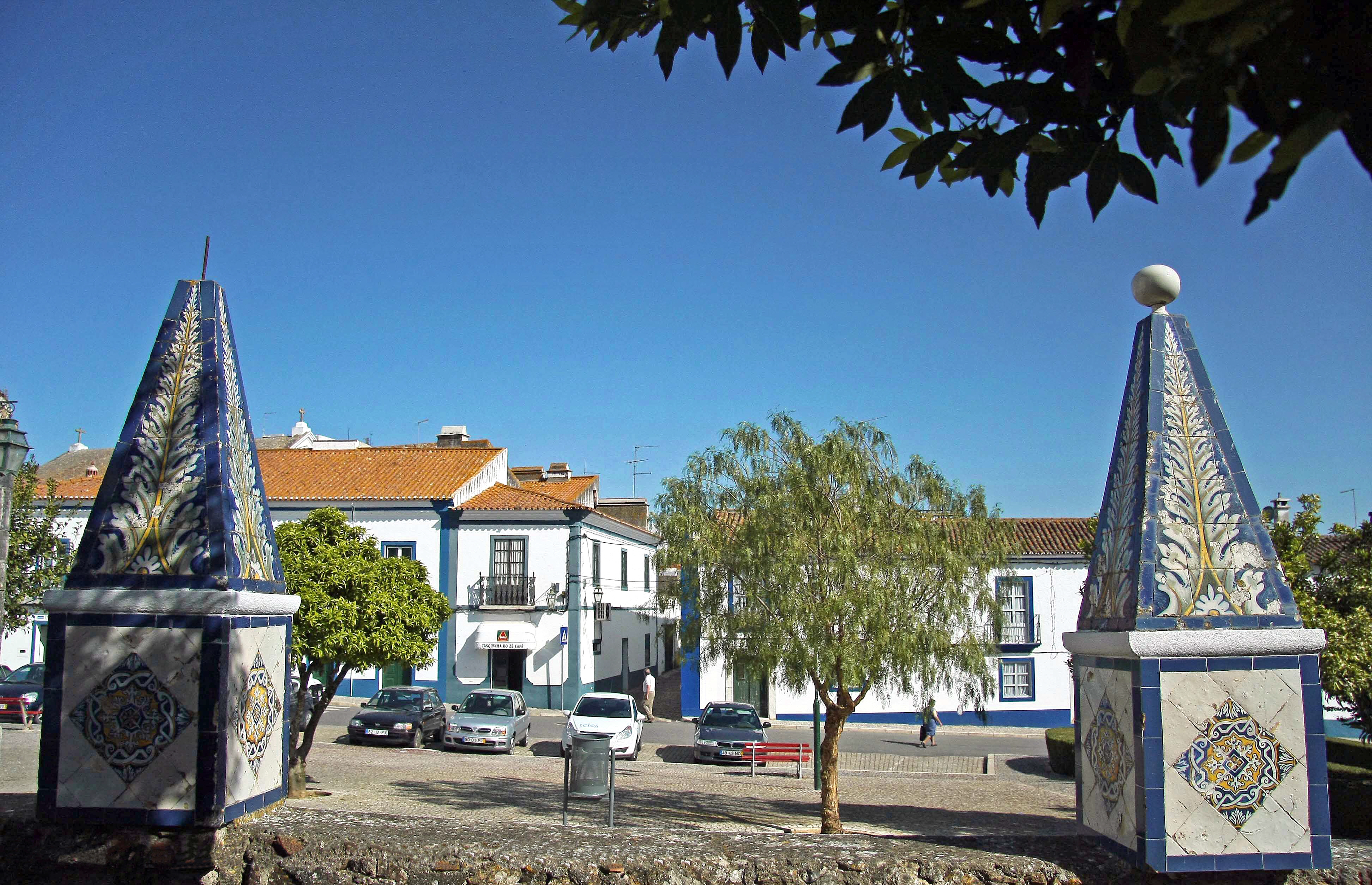 See where this picture was taken. [?]